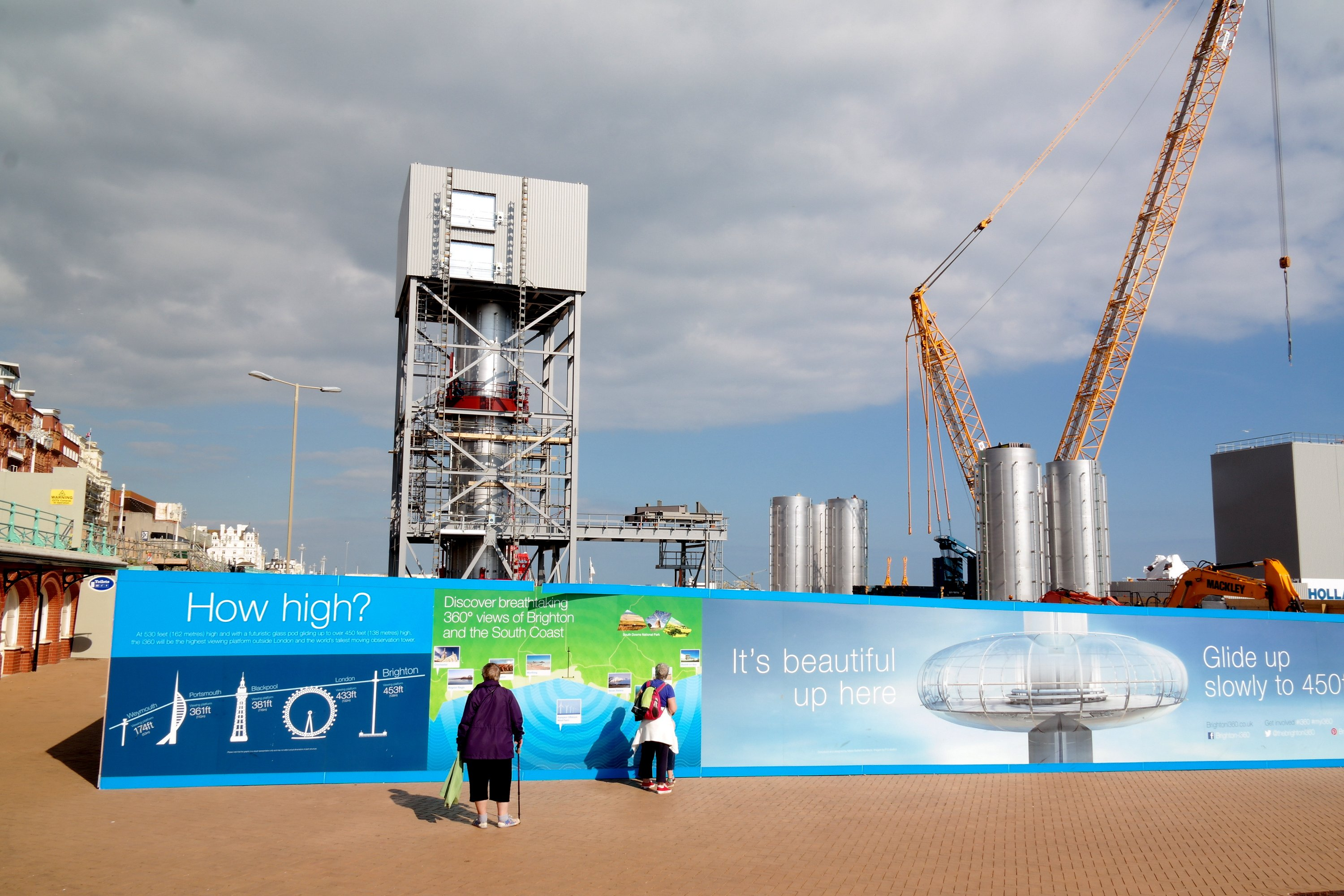 Two passers-by read information on the construction site hoarding for the Brighton i360 (23 June 2015).